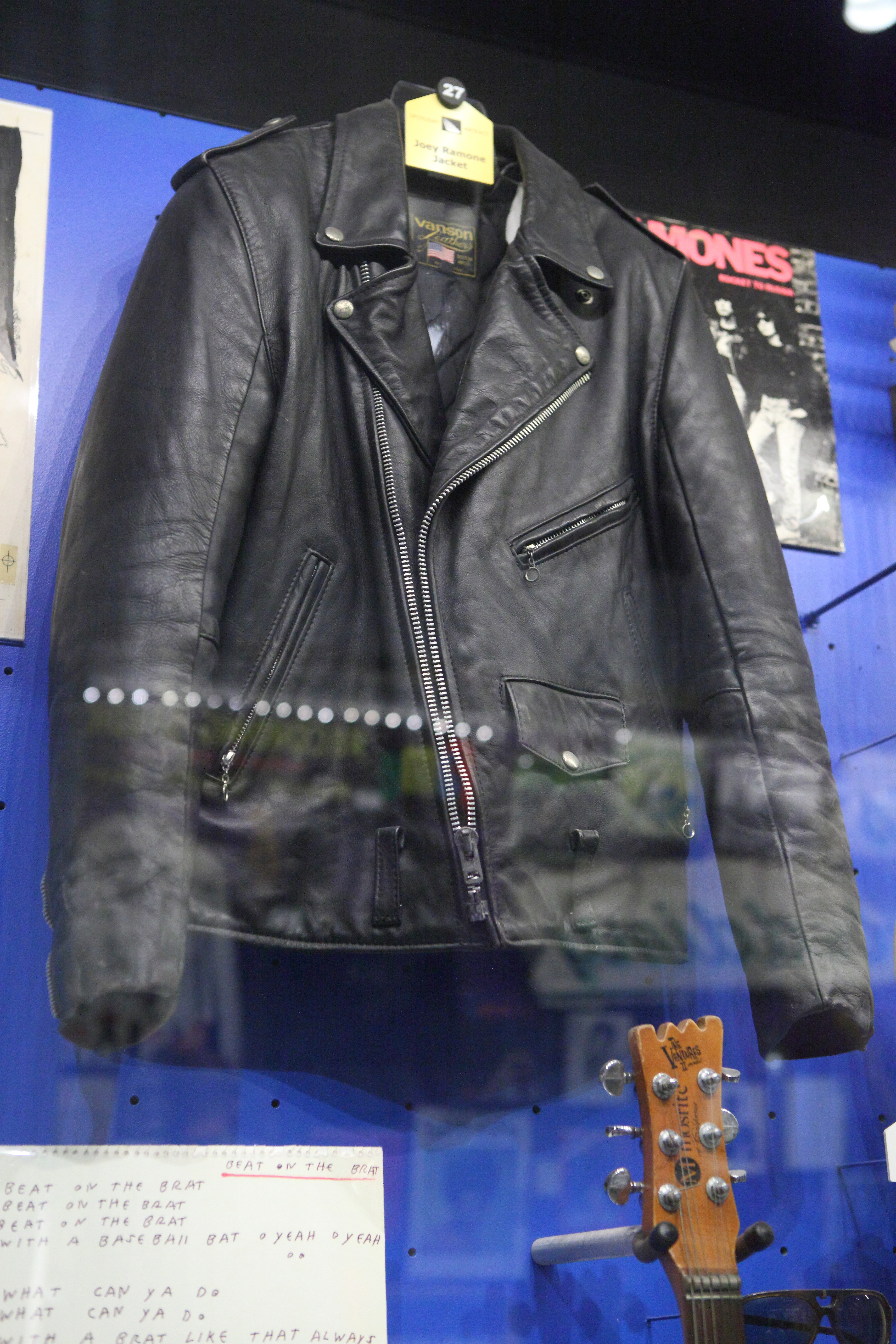 Joey Ramone's jacket at the Rock and Roll Hall of Fame in Cleveland, Ohio. Flickr Tags: ohio outfit clothing joeyramone cleveland clothes jacket theramones rockandrollhalloffame spotlightartifact. Flickr Tags: Rock and Roll Hall of Fame Cleveland Ohio. from Flickr album "Rock and Roll Hall of Fame" by Sam Howzit